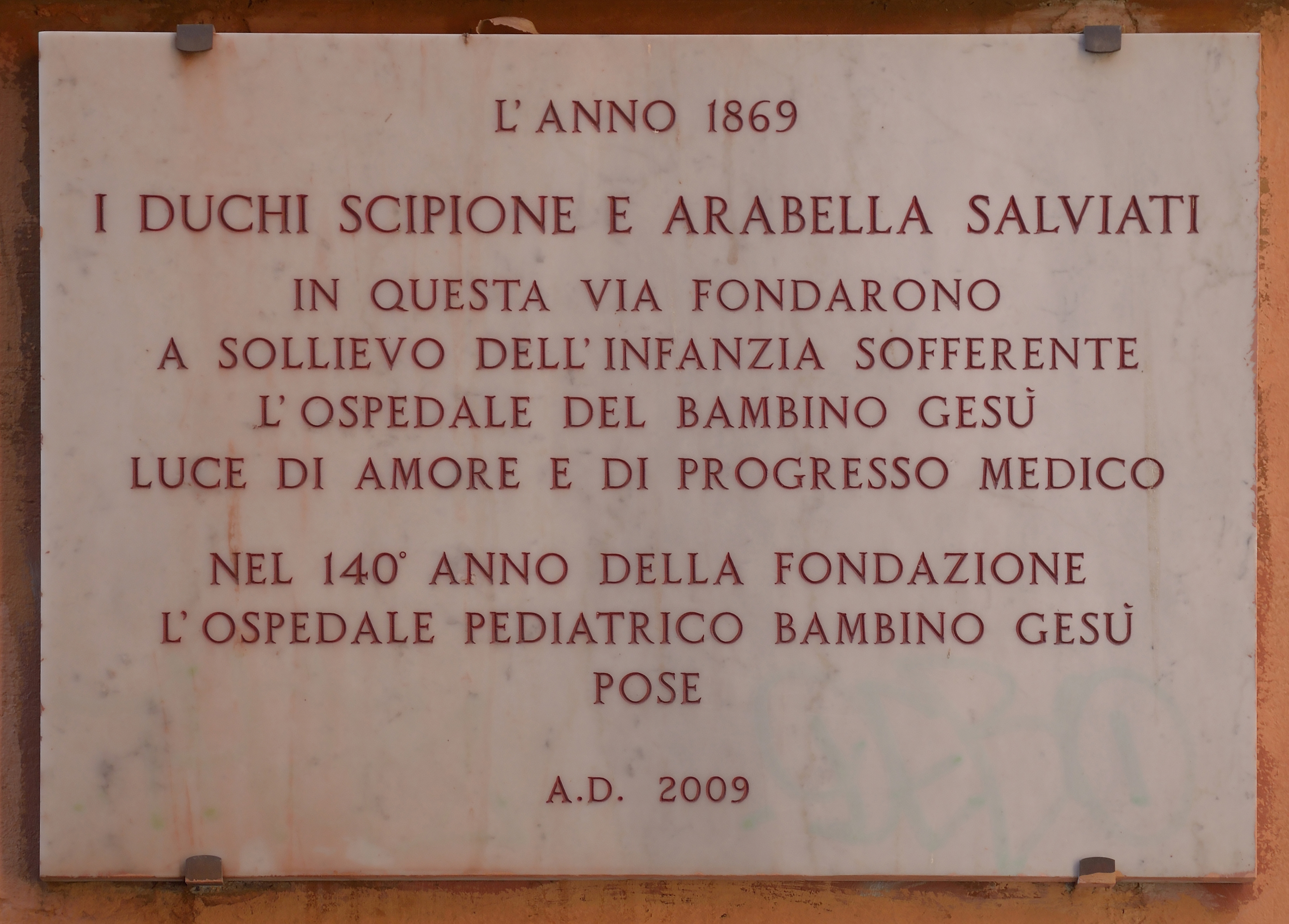 Plate of the foundation of Hospital Child Jesus - In 1869 the Dukes Scipione and Arabella Salviatai in this way fondaronoa relief of children suffering Hospital of the Infant Jesus, the light of love and medical progress. In the 140th year of the founding of Children's Hospital Bambino Gesù poses. A.D. 2009